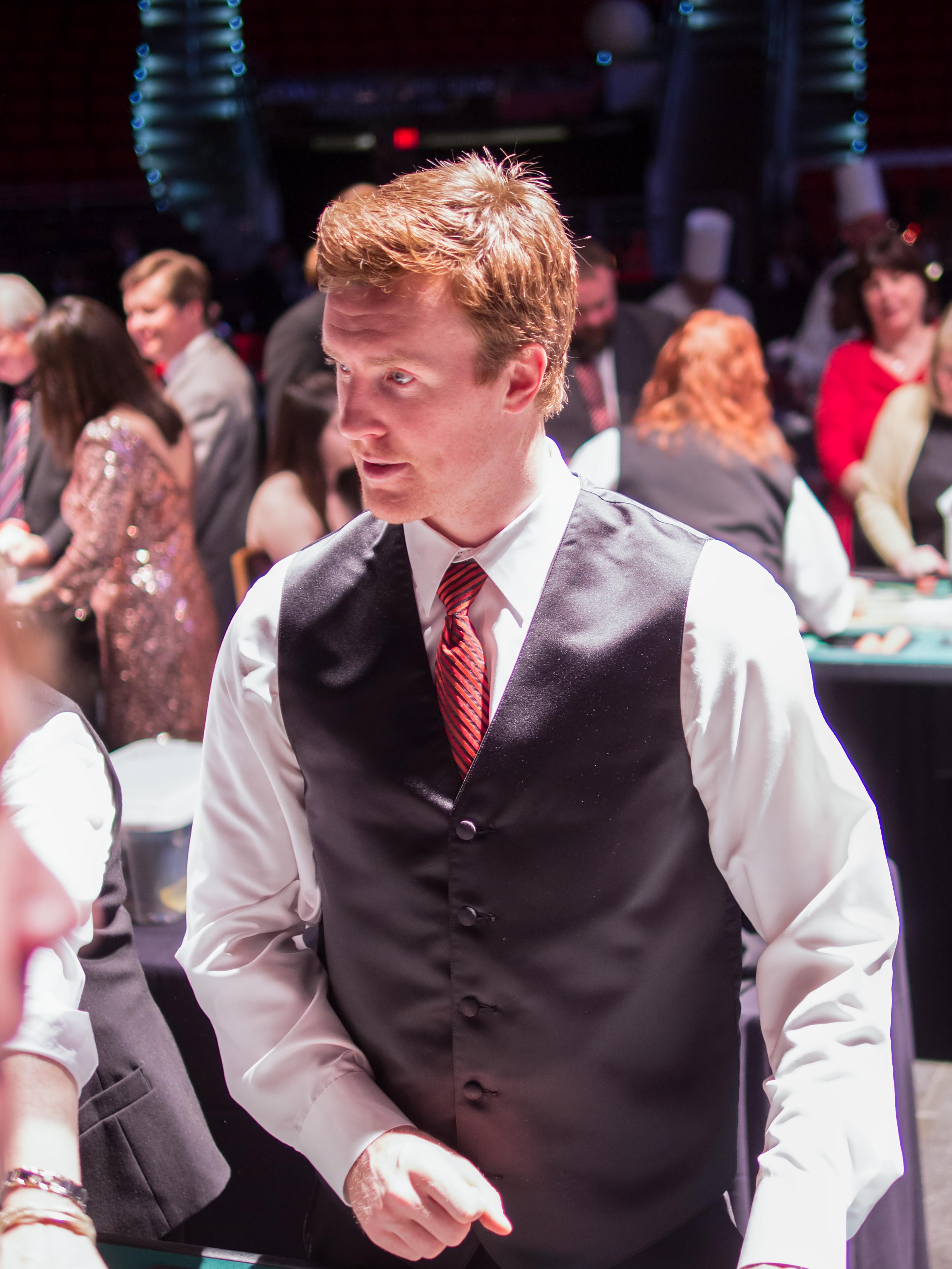 Riley Nash, Canadian ice hockey player (at Carolina Hurricanes Casino Night)